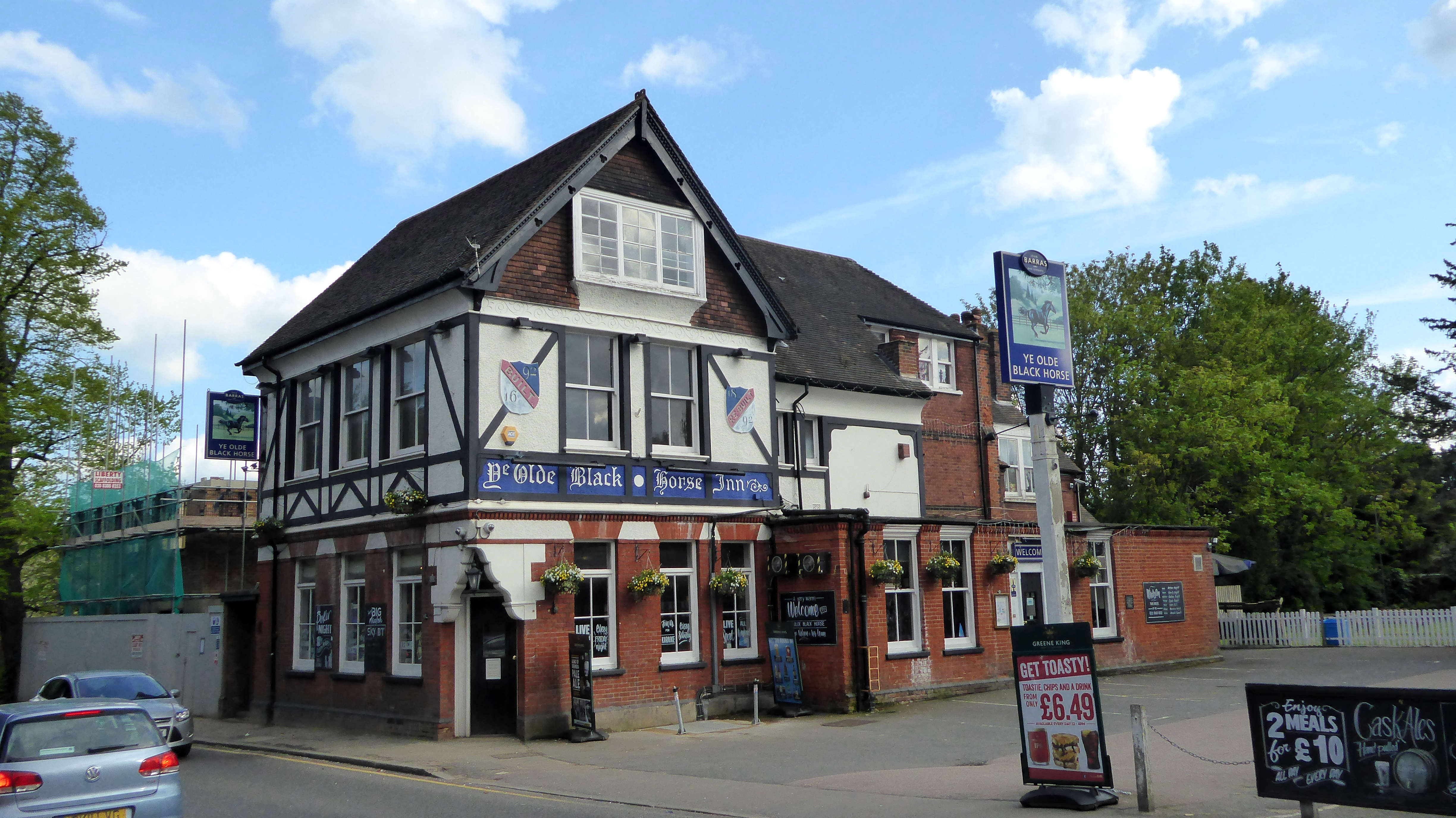 Ye Olde Black Horse, a pub in Lamorbey, London Borough of Bexley which claims seventeenth-century origins.